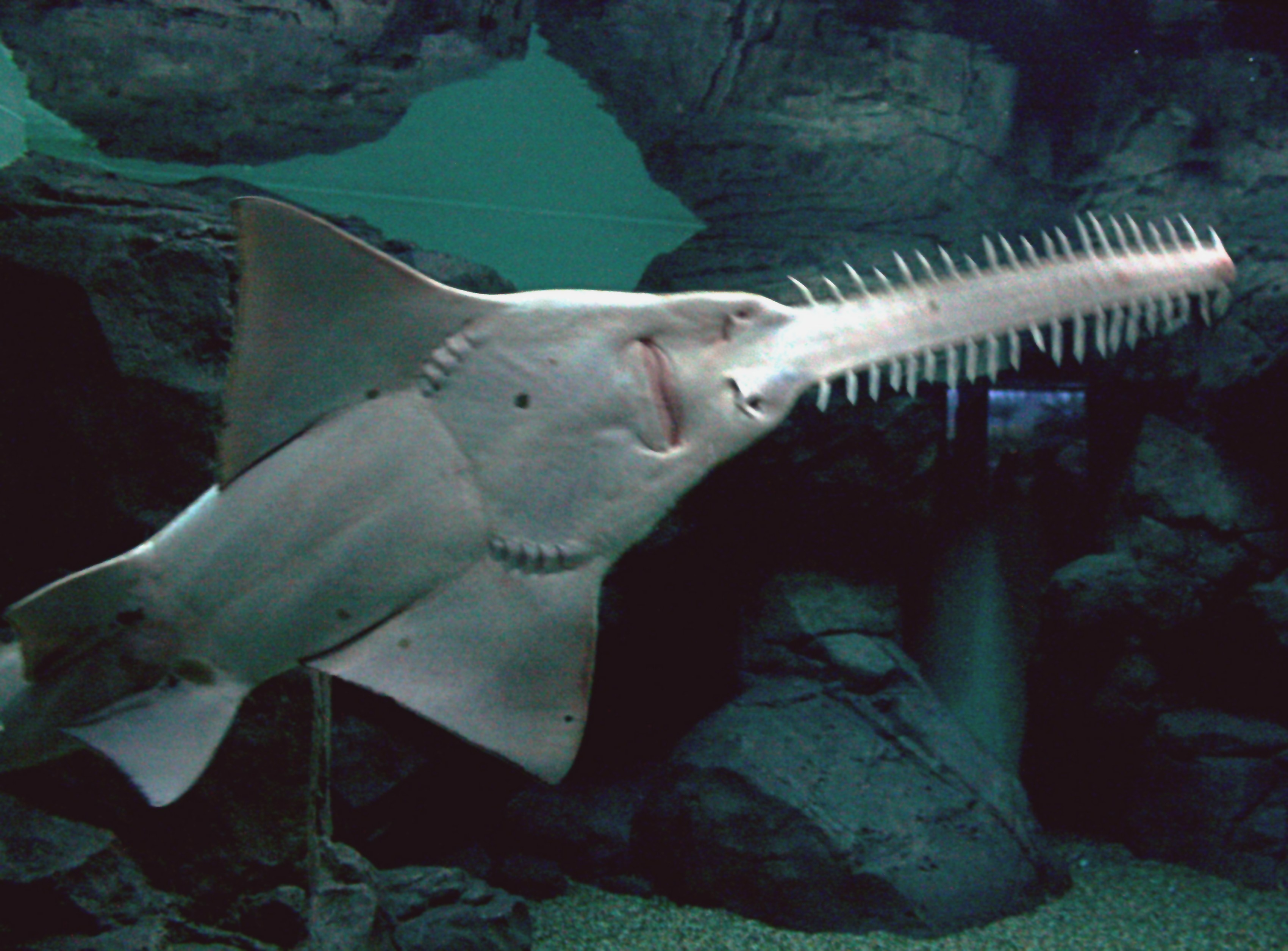 Pristis microdon in Shanghai Aquarium